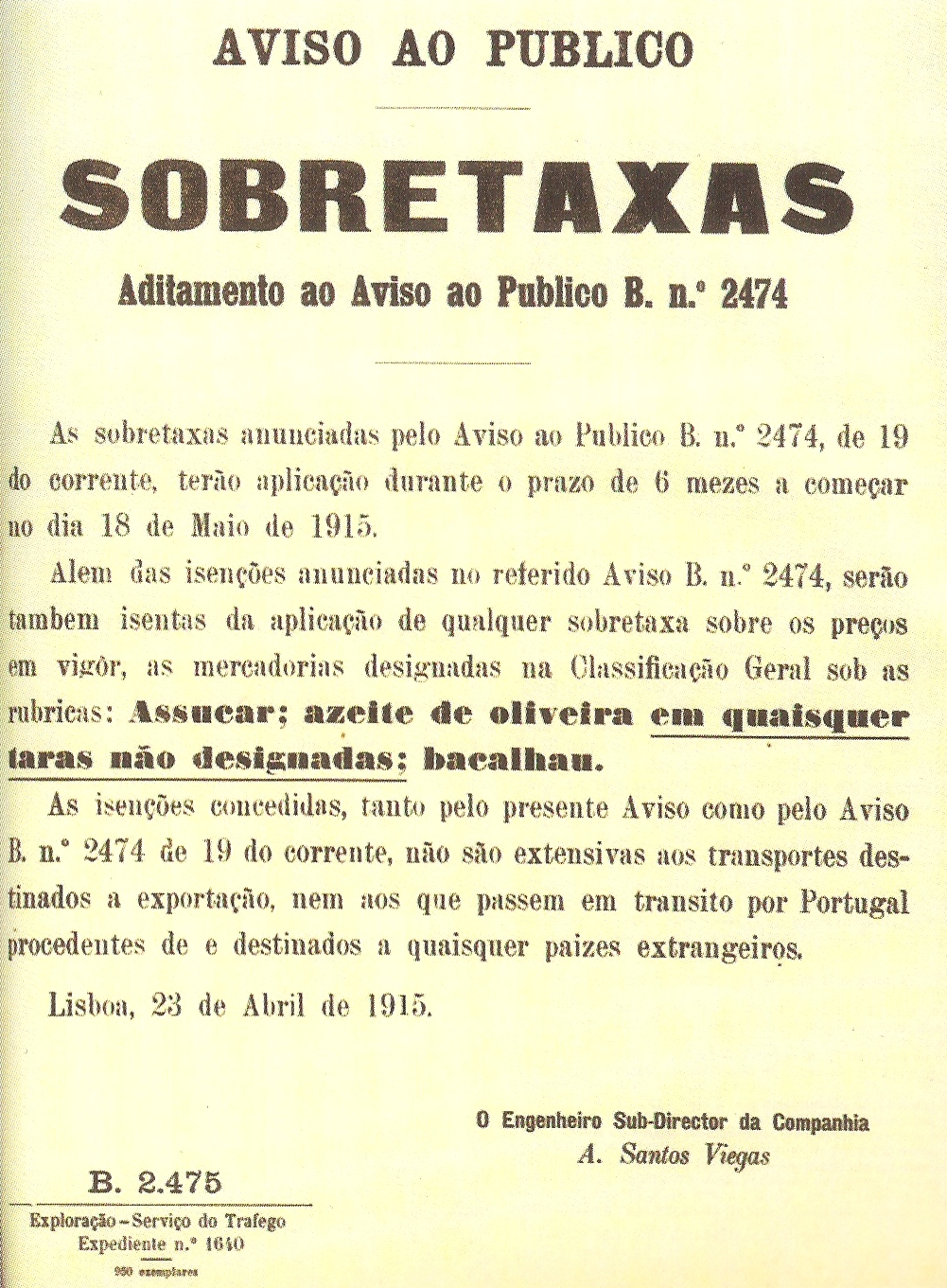 1915 announcement of the Companhia dos Caminhos de Ferro Portugueses (Company of the Portuguese Railways), warning about the surtaxes applied to the railway transport due to the financial woes caused by the First World War.